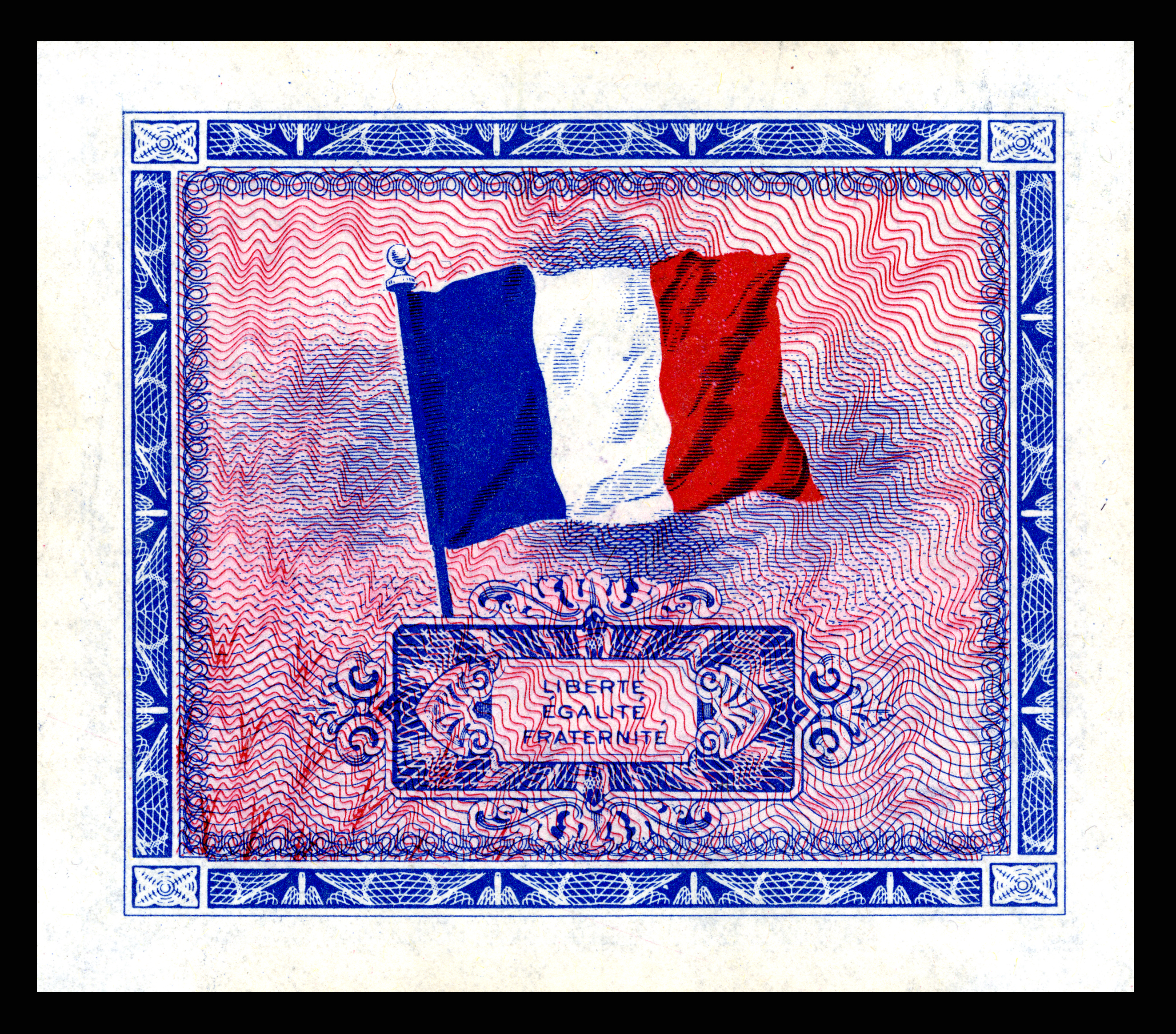 Allied Military Currency-Reverse for 2, 5, 10 Franc notes (1944)From the first of two issues of Allied Military Currency, the First Issue Supplemental French Franc was printed in eight denominations. The 2, 5 and 10 Franc notes are square while the 50, 100, 500, 1,000, and 5,000 France notes are rectangular. The reverse design is similar for the entire issue.